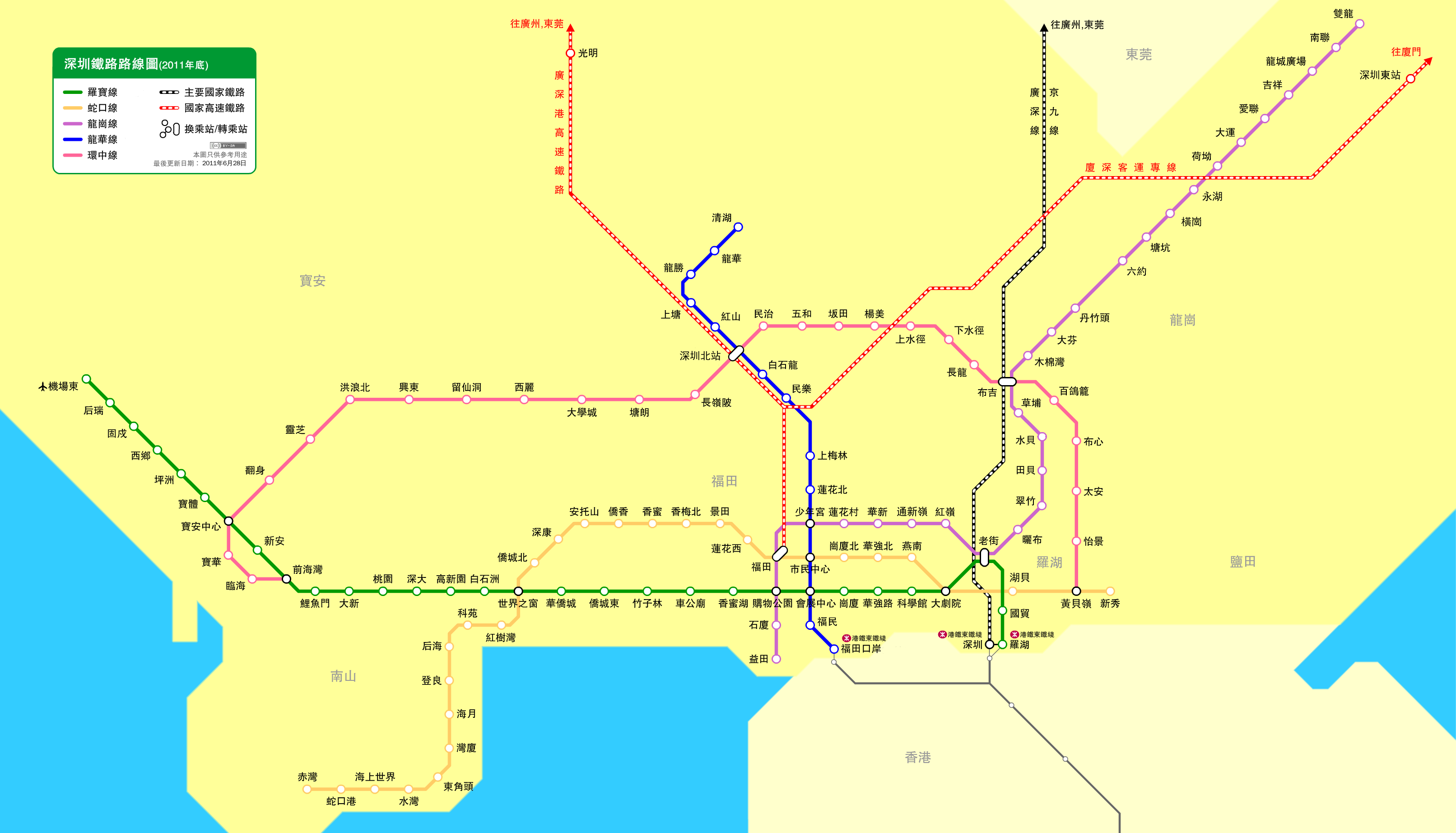 Map of Shenzhen railways at the end of 2011 in Traditional Chinese